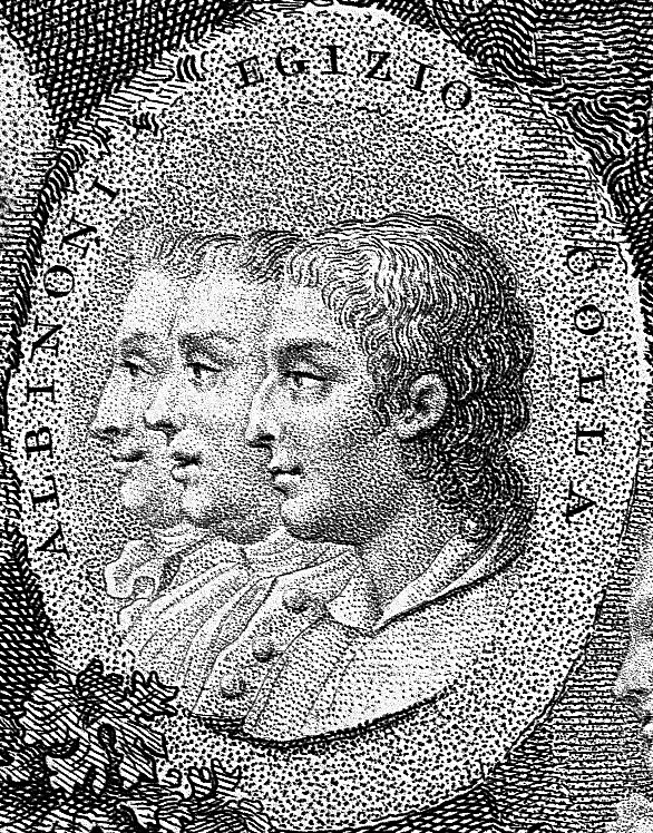 Detail from a copper engraving of Italian composers Tomaso Albinoni (1671-1750), Domenico Gizzi (Egizio or Egiziello) (1680- c. 1745) and Giuseppe Colla (1731-1806) by Pietro Bettelini (1763–1829), after a drawing by Luigi Scotti.